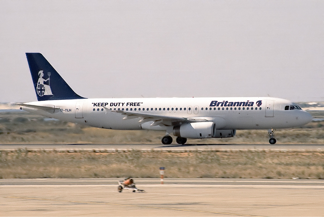 Britannia Airways Airbus A320